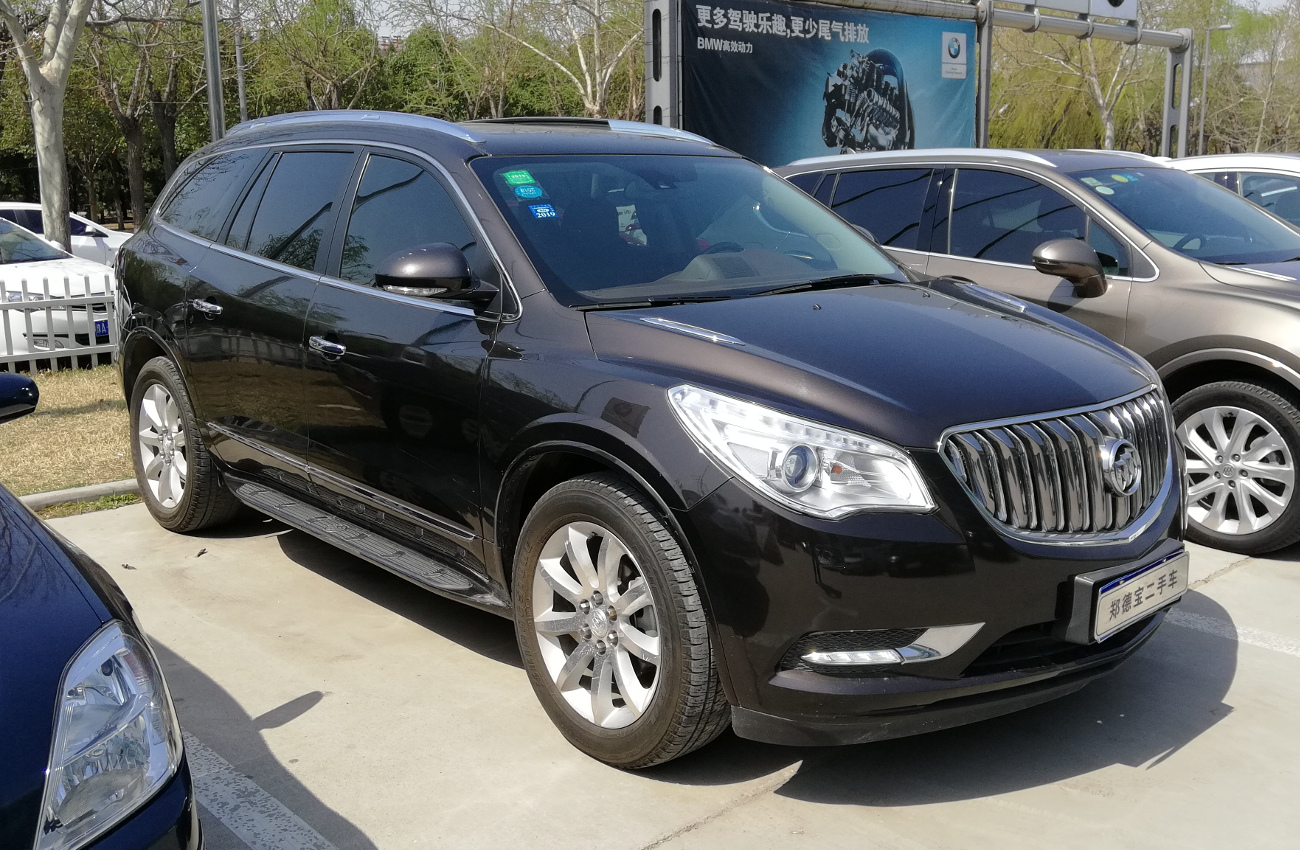 Buick Enclave facelift photographed in Zhengzhou, Henan province, China.